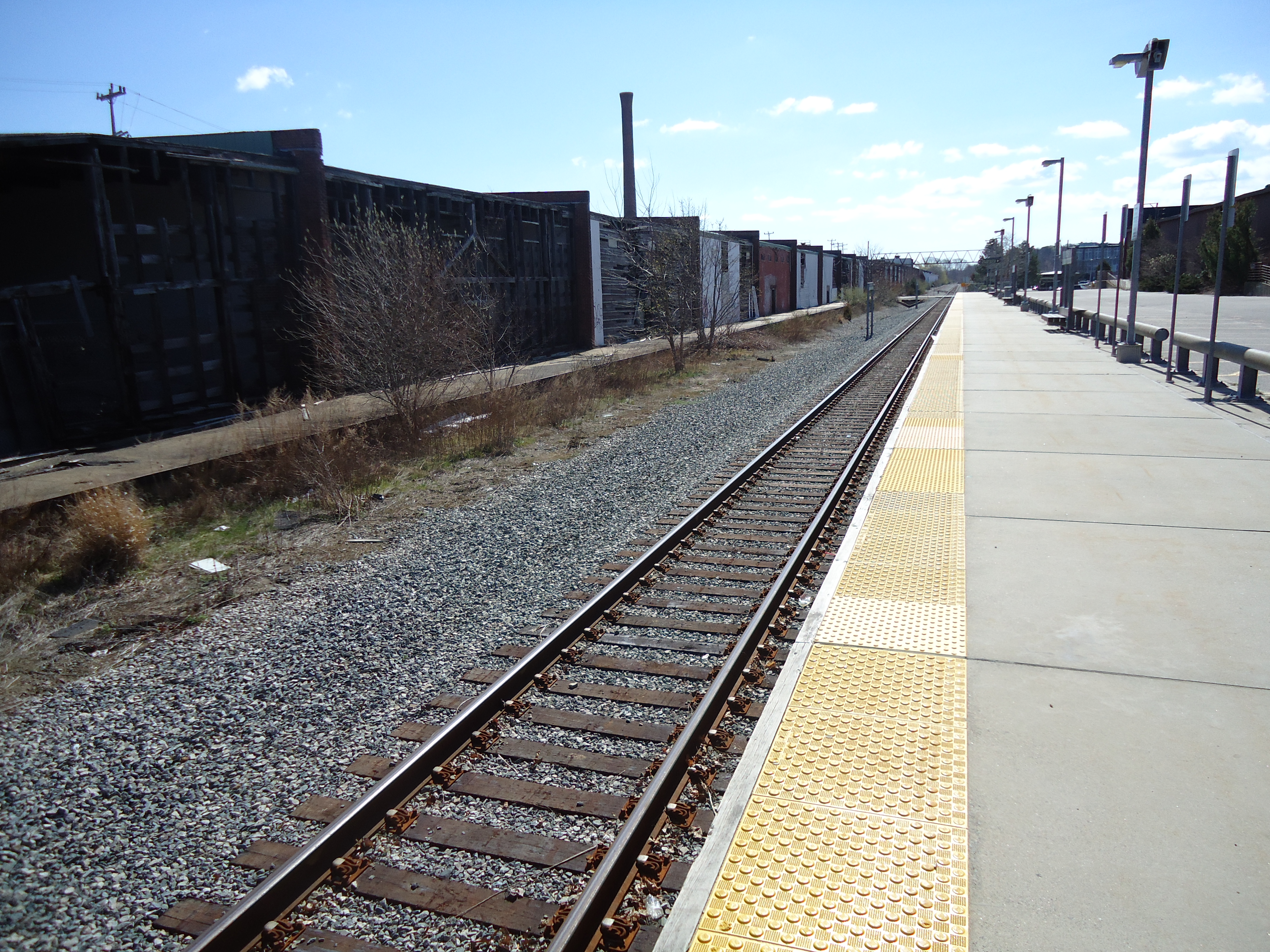 Facing outbound at Plymouth station towards the 2-track layover yard